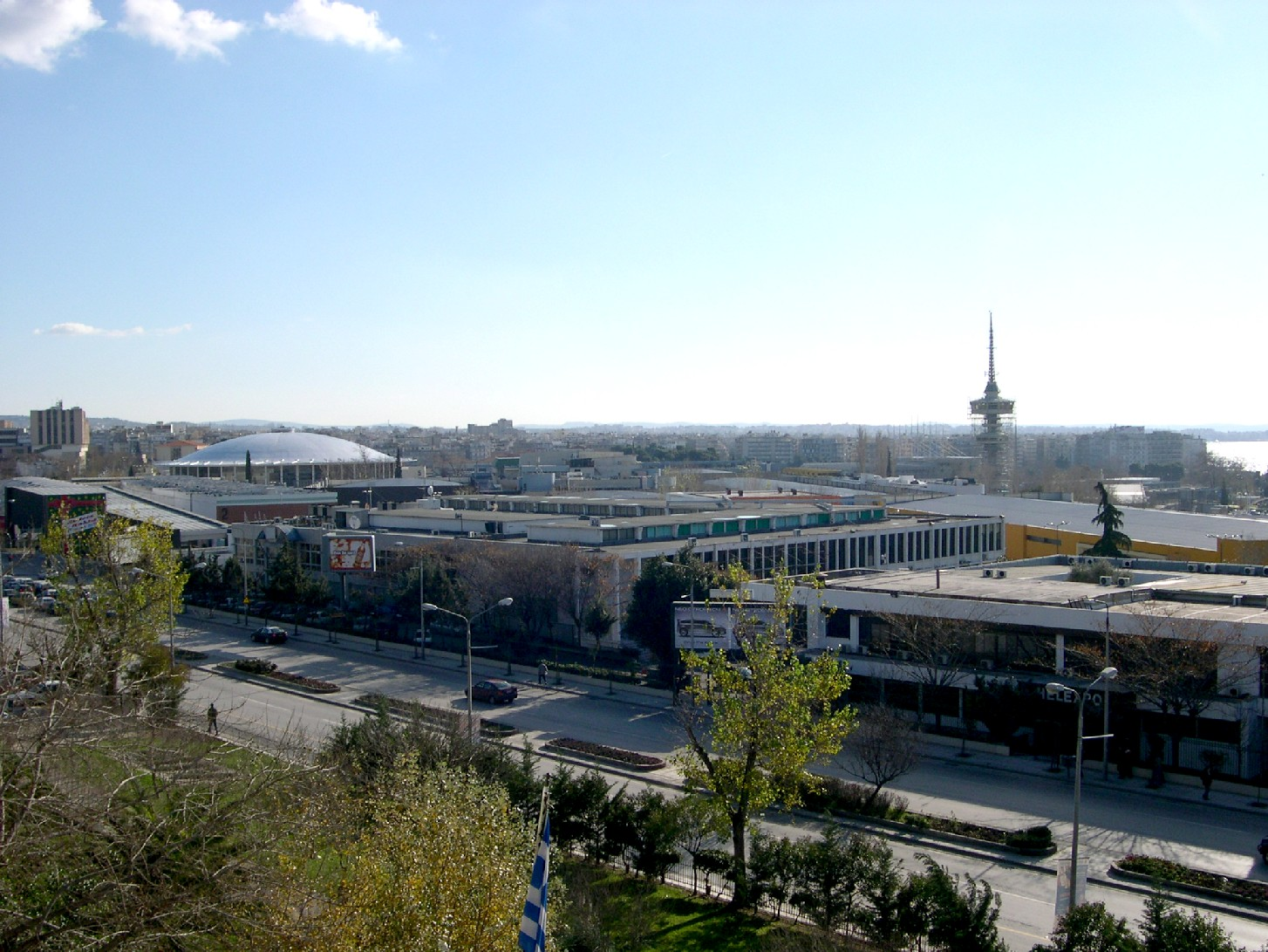 View of Thessaloniki's International Fair area. Thessaloniki-Greece.